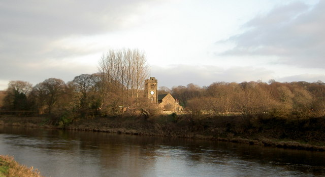 Samlesbury Church and the Ribble Seen from across the Ribble on a bright December afternoon, this church might have been painted by Constable...